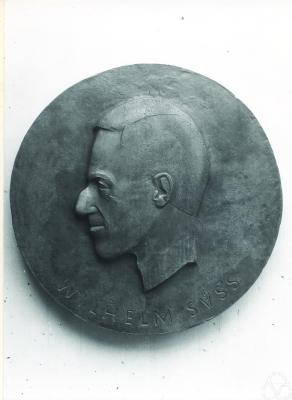 Badge in the “Mathematisches Forschungsinstitut Oberwolfach” showing founder Wilhelm Süss.